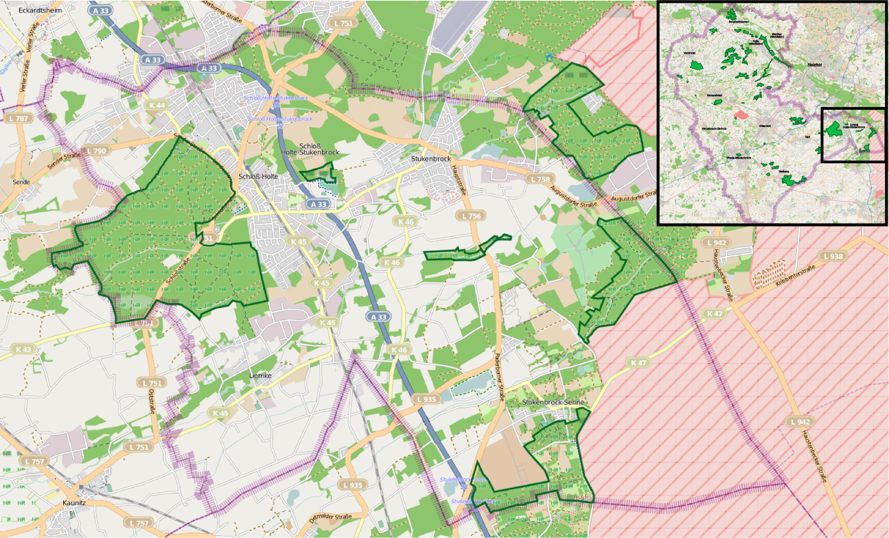 Nature reserves in Schloß Holte-Stukenbrock - overview map Number and borders of nature reserves are subject to frequent change. In order to facilitate reproduction of this map from openstreetmap, the following data is stored here: export boundaries: north: 51.935; west: 8.547 south: 51.85; east: 8.755 mapnik svg, scale 1:70.000 nature reserve boundary stroke weight 3.5; nature reserve stroke color: R 5, G 102, B 36; district border stroke weight: 20